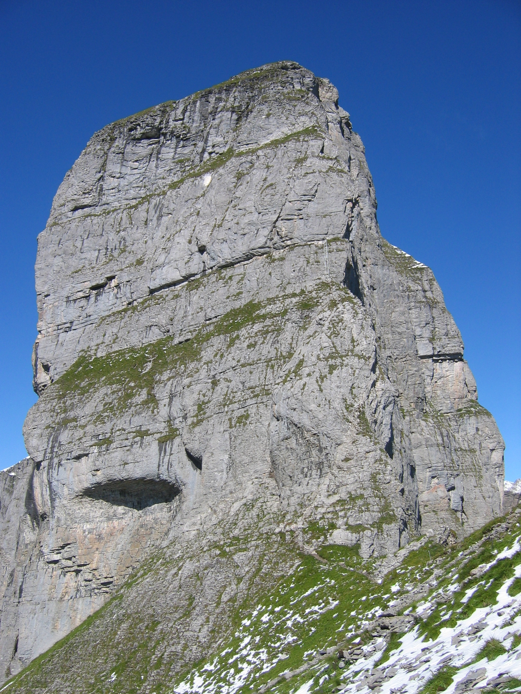 The Vorderer Eggstock in the Glarus Alps, seen from the Leiteregg